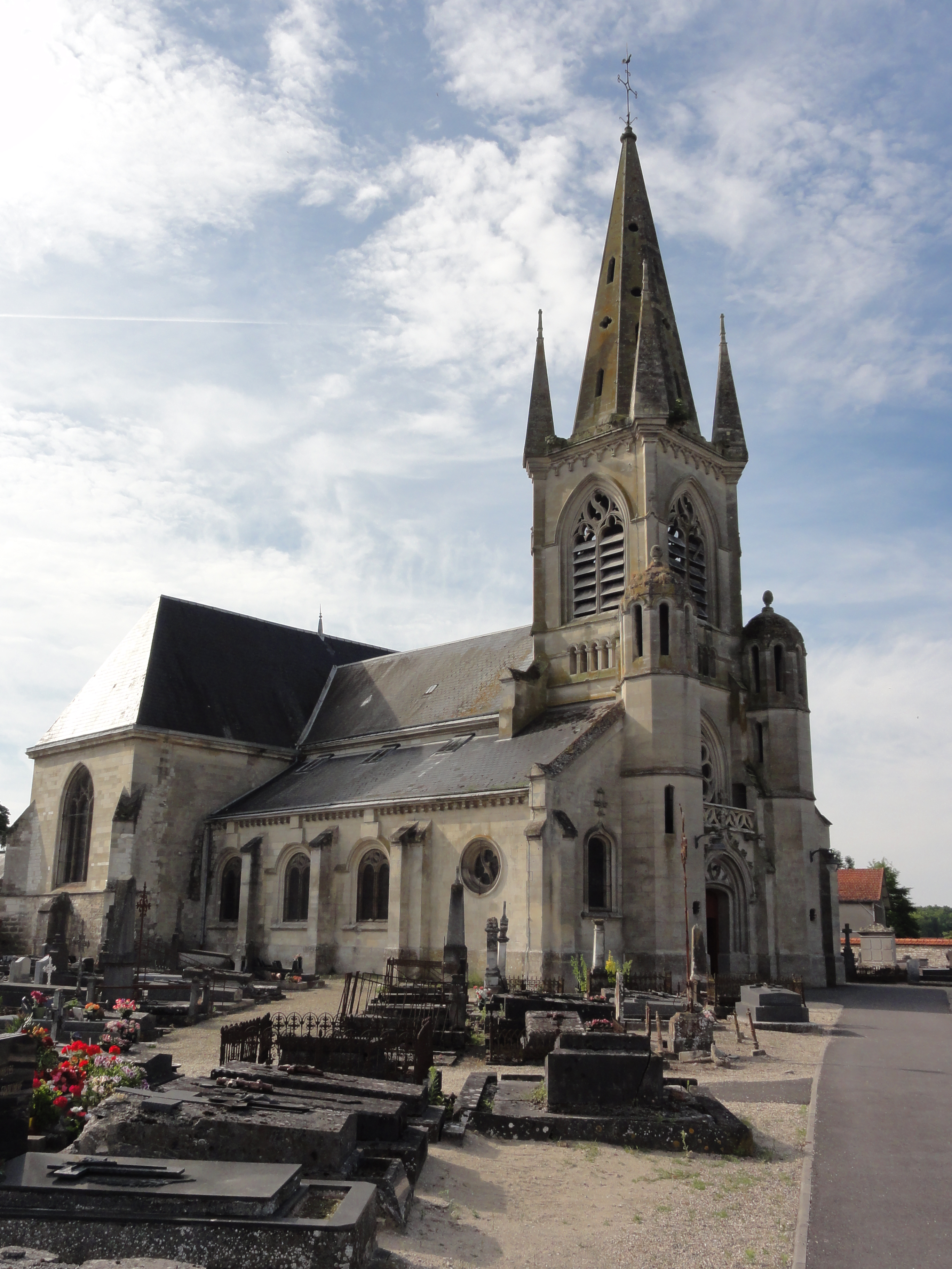 Sissonne (Aisne) Église Saint-Martin et cimetière